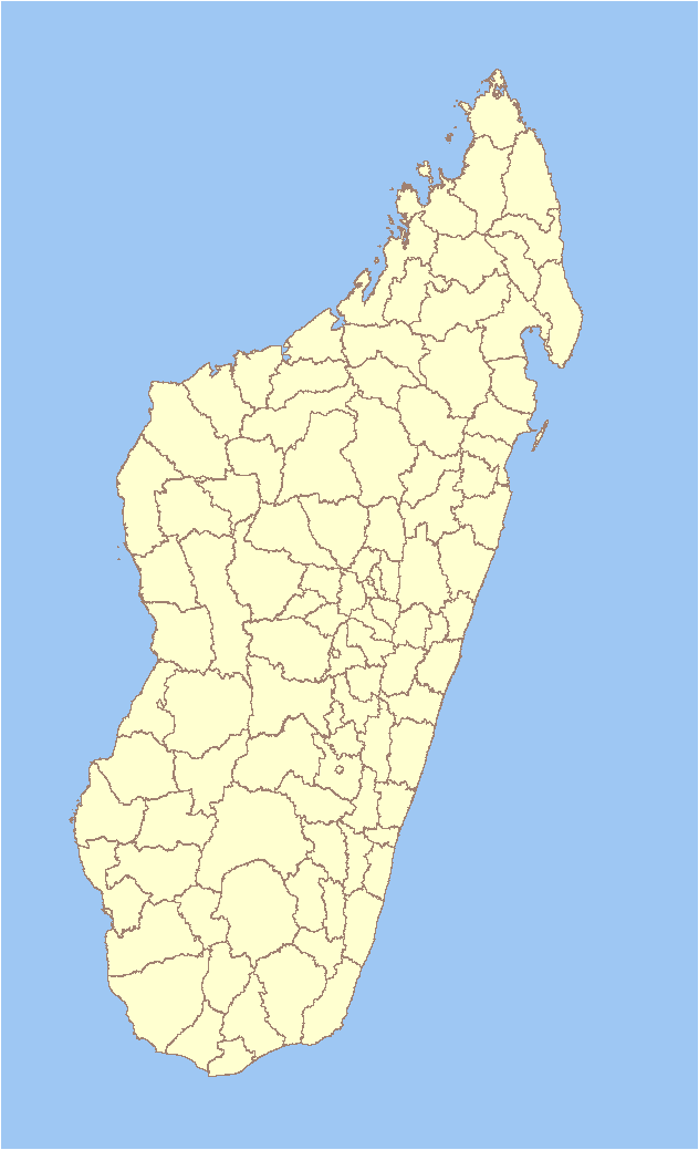 Map of the districts of Madagascar